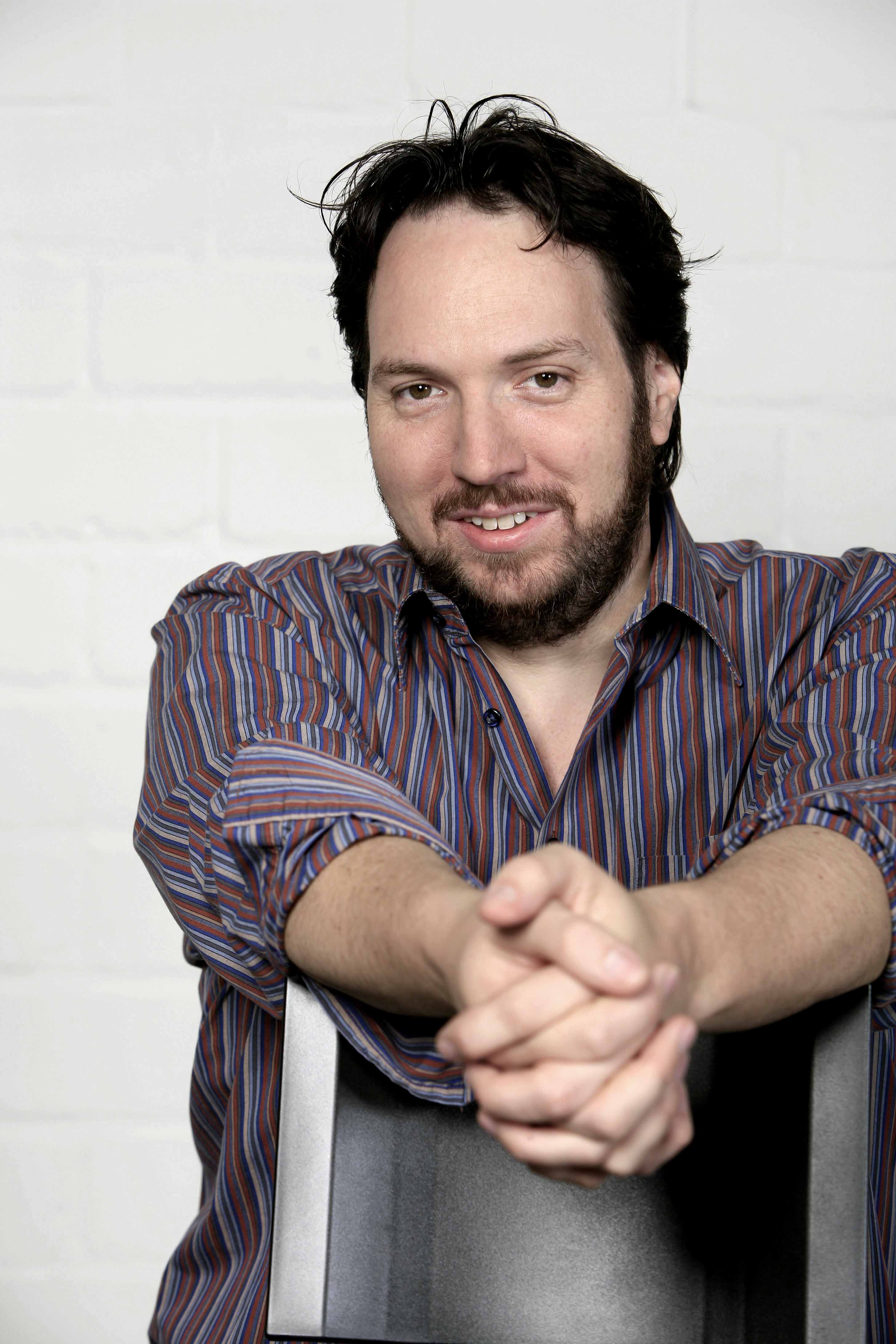 Carsten Sebastian Henn